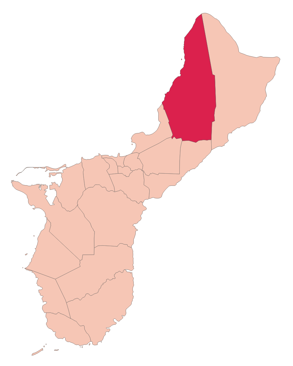 Municipalities of Guam: DededoChamoru: Dedidu (Guåhån).